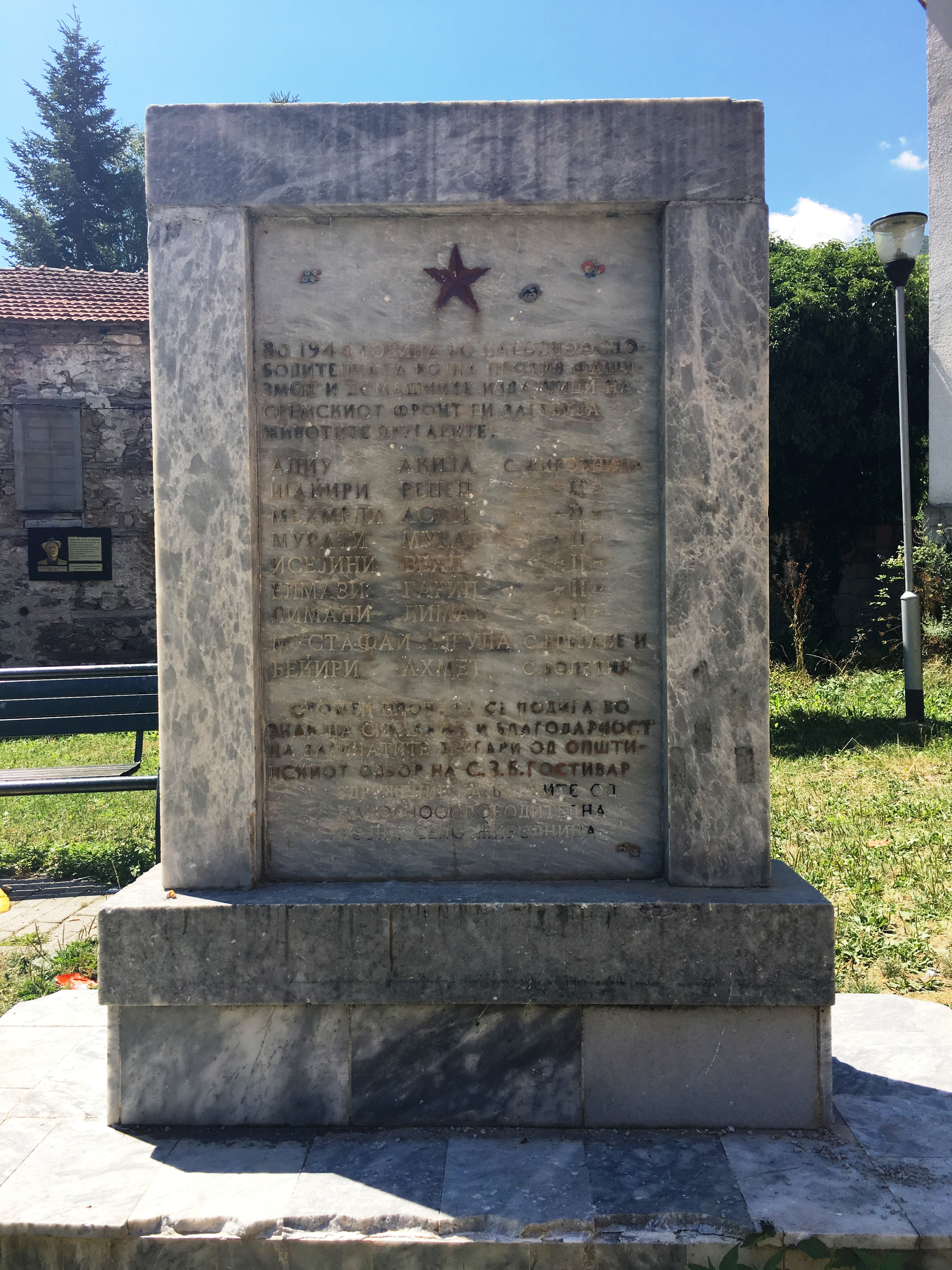 World War II monument in the village of Žirovnica